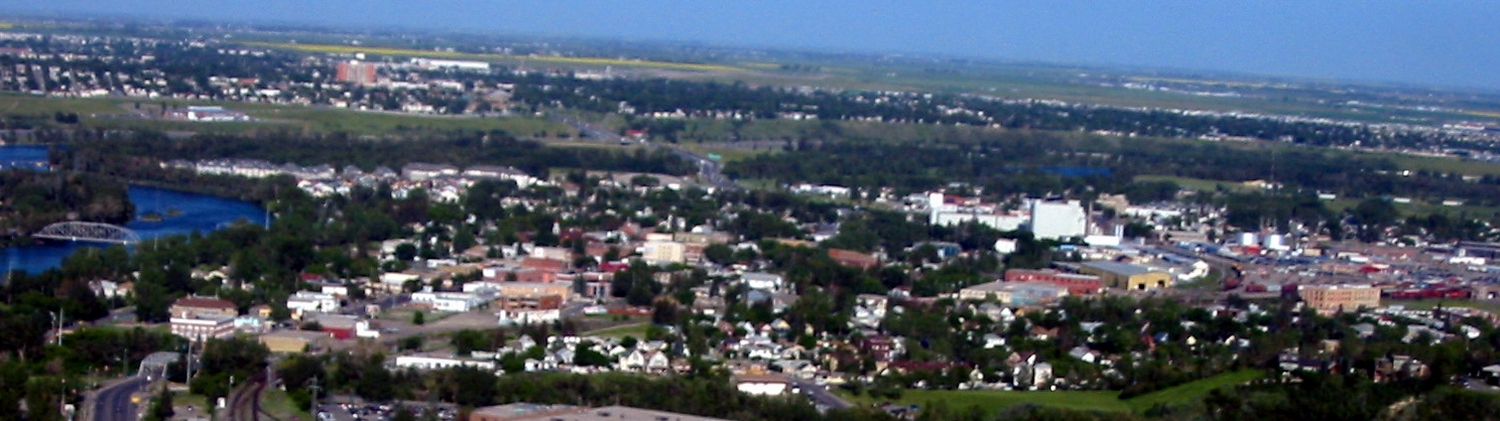 Neighbourhood of Inglewood in Calgary, Alberta, Canada, seen from the Calgary Tower